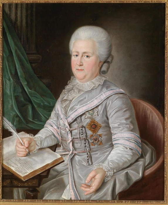 Empress Catherine the Great of Russia (1729–1796) This intimate portrait of the Empress, which already breathes the spirit of a bourgeois age, is not related to any known likeness of the Tsarina. Although she is dressed here in civic attire, the three medals betray the traditional iconography reserved for rulers. The portrait reflects the Empress’s commitment to the ideas of the Enlightenment and is far removed from the official court portraits of the Late Baroque age. In 1745, Princess Sophie of Anhalt-Zerbst, born in 1729, became Great Duchess Catherine of Russia. In 1761 her husband was proclaimed Emperor (Tsar) Peter III, who pursued a pro-Prussian policy. In 1762 the unpopular Tsar was disempowered through a coup d’état, and his wife succeeded him to the throne as Catherine II. She governed Russia as an autocratic ruler until her death in 1796. She felt drawn to the ideas of the Enlightenment, but in everyday politics turned out to be an authoritarian and absolutist sovereign, expanding Russia’s power like no Russian ruler had done before her. She also opened Russia to European art and culture. Helmut Börsch-Supan suggests an attribution for the present painting to the court painter Joseph Wolfgang Hauwiller of Baden (from 1764 active in Rastatt) and compares our painting to Hauwiller’s portrait of Margravine Caroline Luisa of Baden.